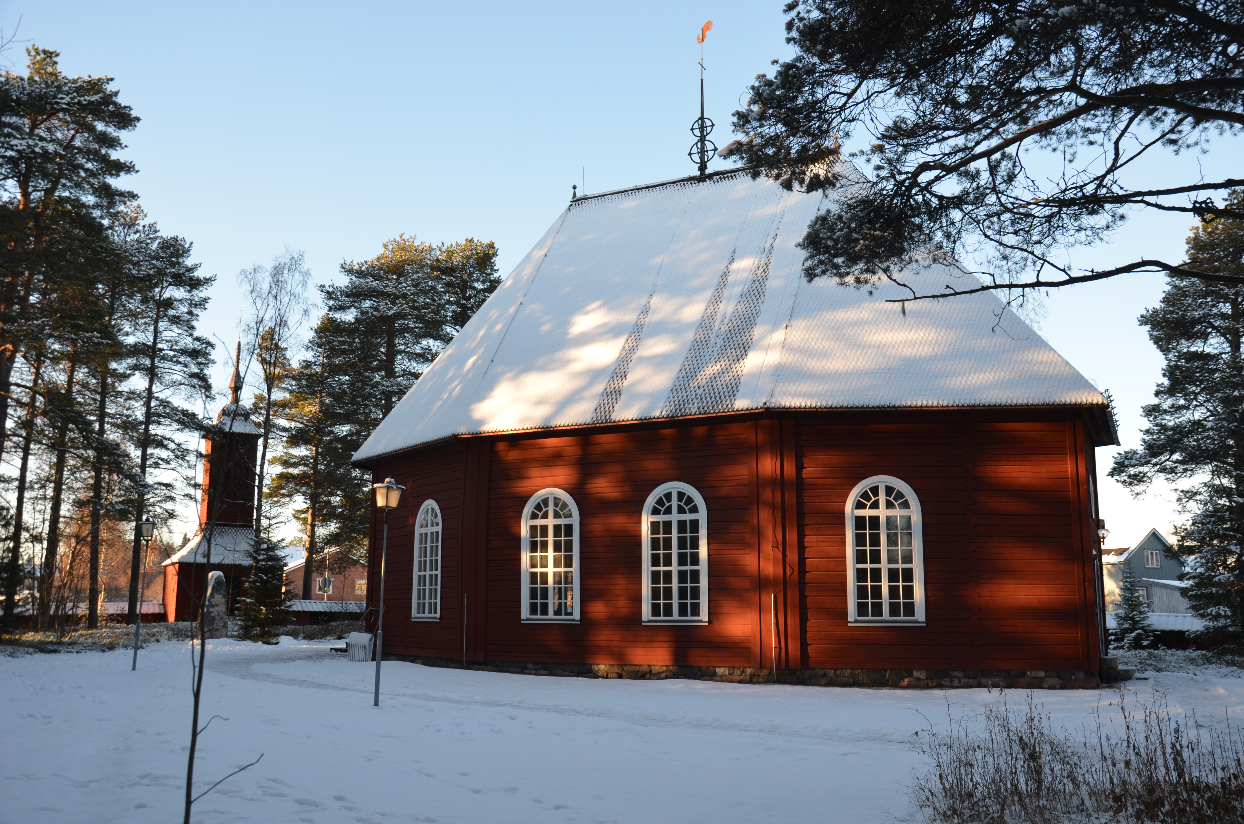 Jokkmokks gamla kyrka